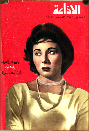 A scan of the movie poster for the Arabic film Ana Horra (1959).